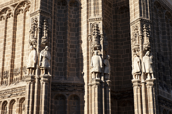 ref: PM_065529_E_Toledo; Toledo; Monasterio de San Juan de los Reyes; Castilla la Mancha, Toledo; Spain; La fachada; Cultural heritage; Europe/Spain/Toledo; Wiki Commons; Photographer: Paul M.R. Maeyaert; © Paul M.R. Maeyaert